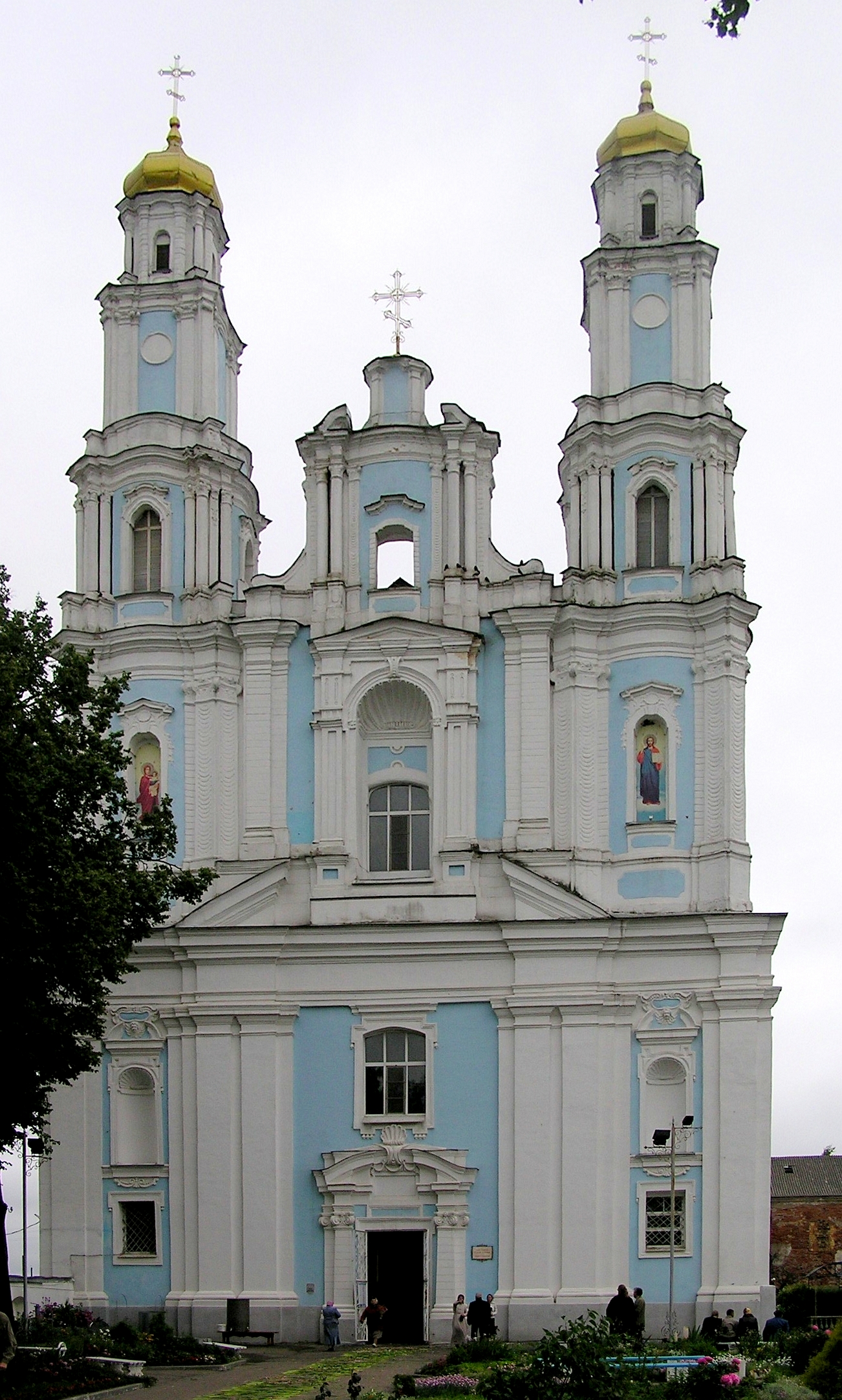 Postcarmelite Church in Hłybokaje